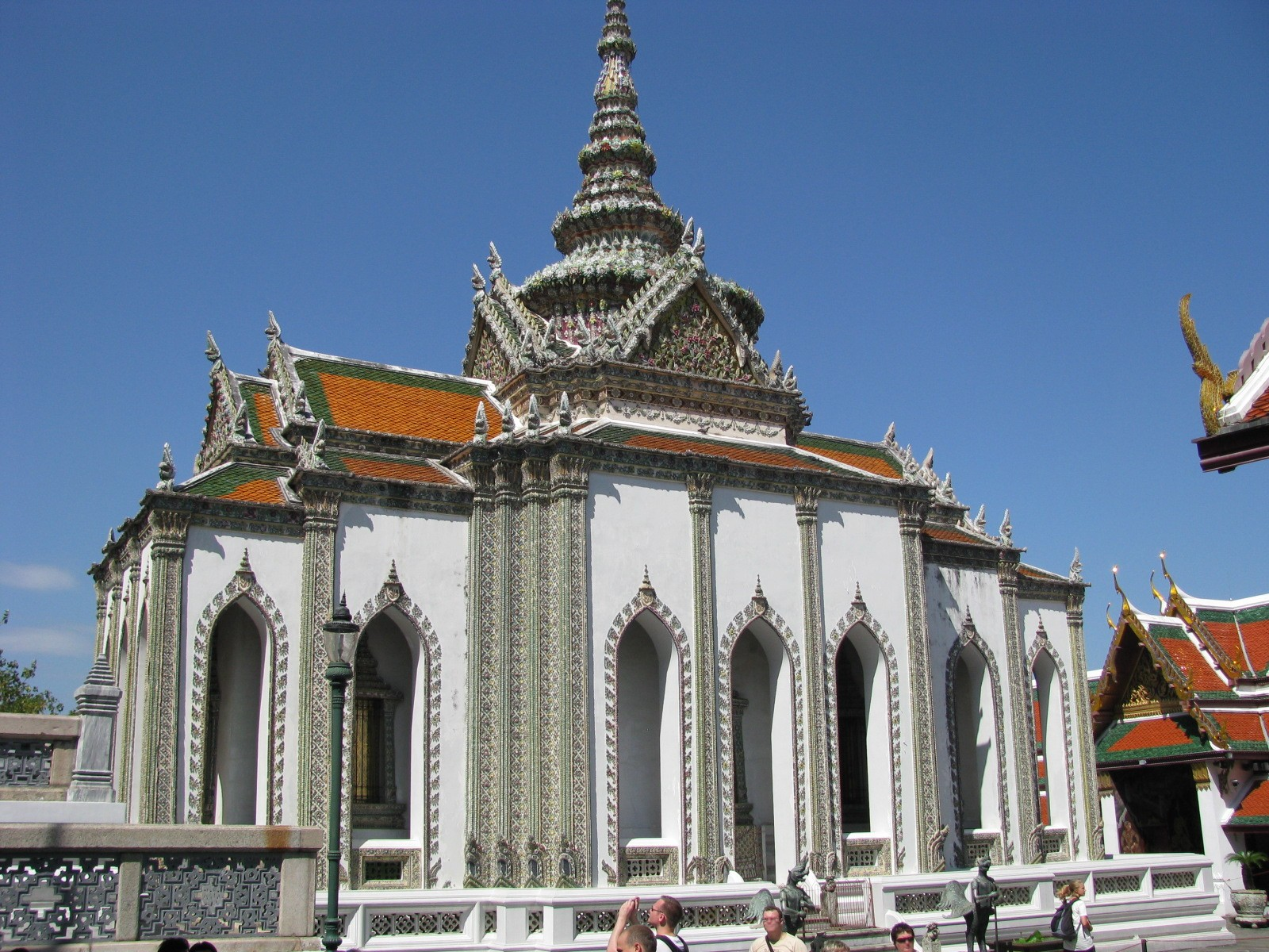 The Temple of the Emerald Buddha in Phra Nakhon, Bangkok, Thailand.